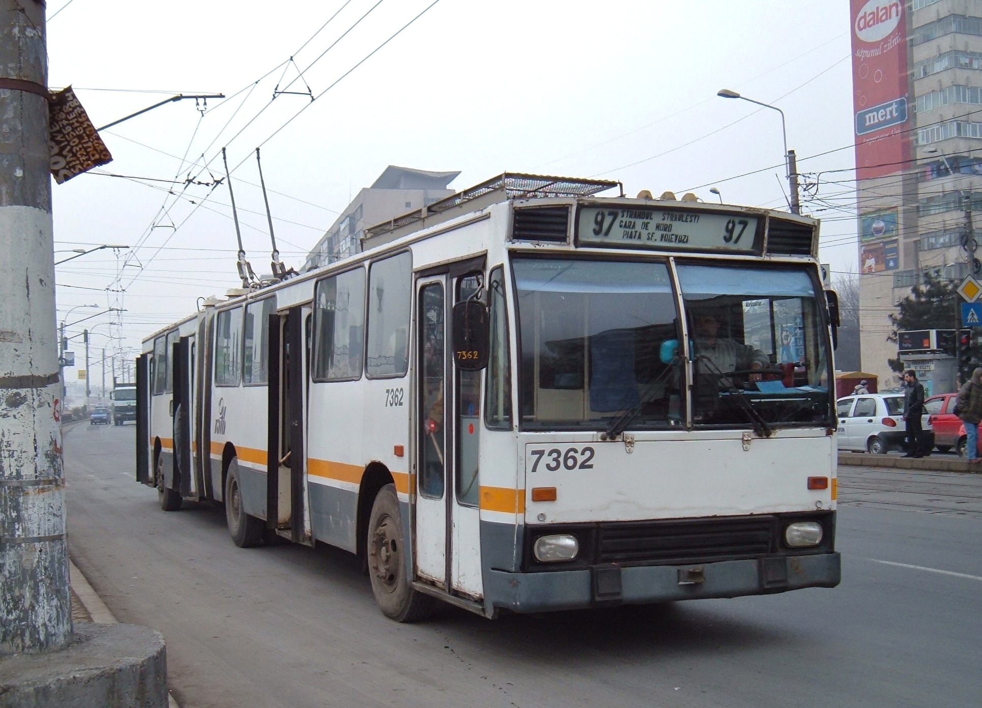 Bucharest trolleybus 7362 is a 1990 DAC 117EA trolleybus. It is shown in service on route 97. It was withdrawn in June 2007, and the last DAC trolleybuses in use on the Bucharest system were withdrawn in October 2007.